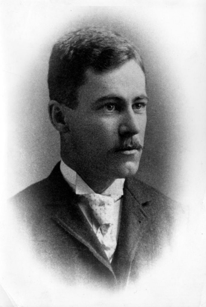 Benjamin Tingley Rogers; 3/4 view profile in an oval-shaded backdrop